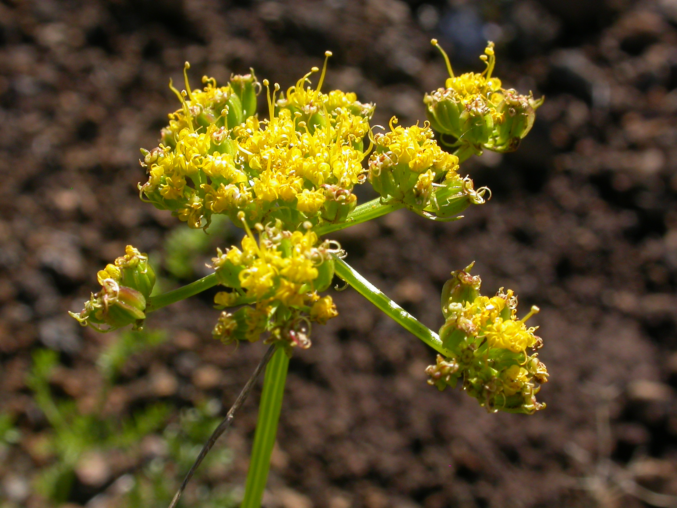 Pteryxia terebinthina, Butte Co., Idaho, USA